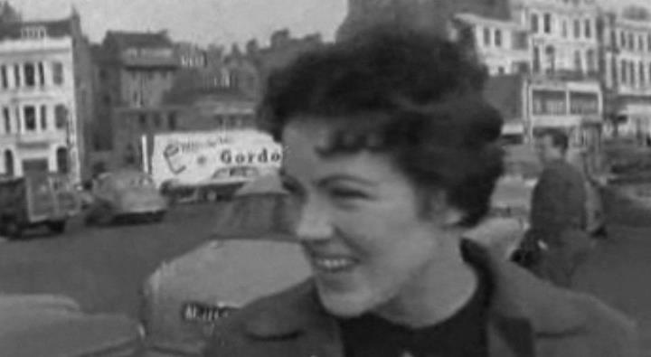 Pat Moss pictured in Harold Place (1958)